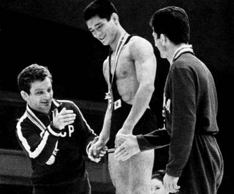 Vladlen Trostyansky, Masamitsu Ichiguchi, Ion Cernea, Tokyo Olympics